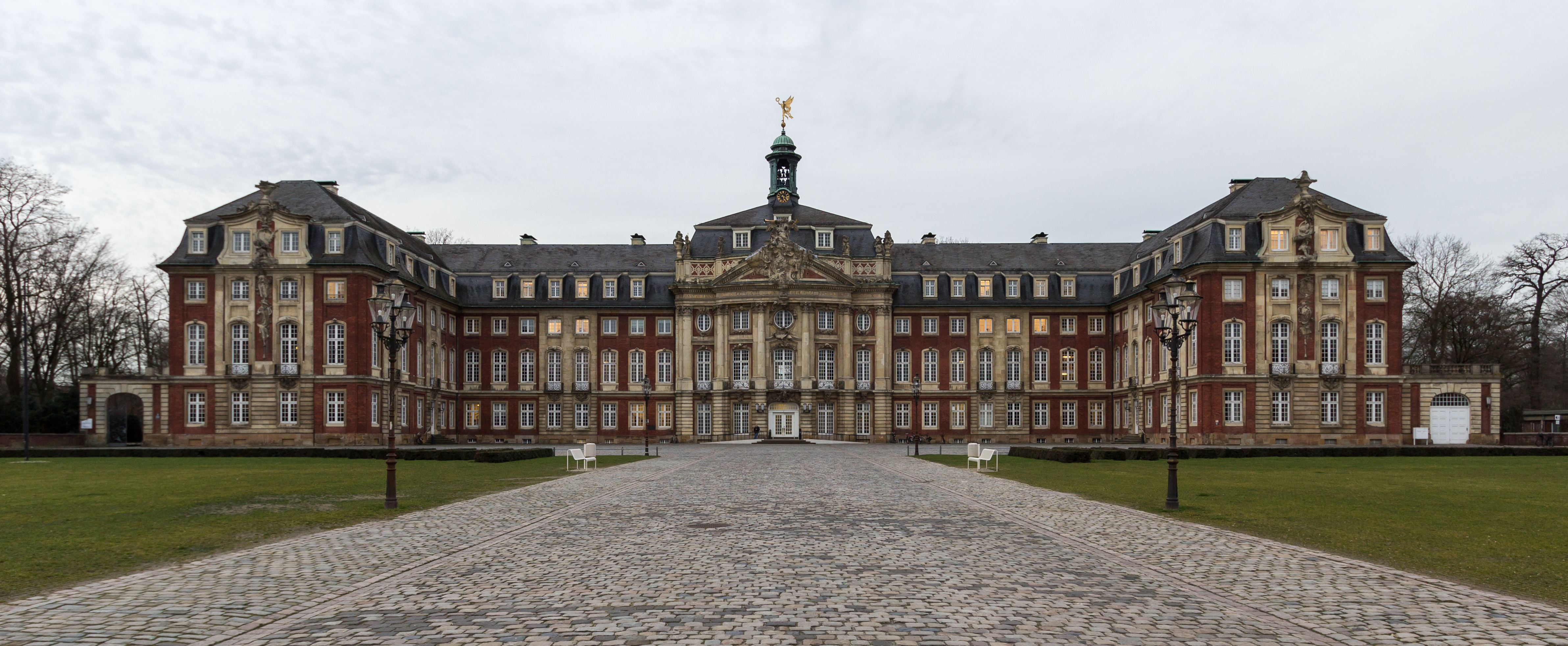 Prince Bishop's Castle Münster, Münster, North Rhine-Westphalia, Germany This image shows a heritage building in Germany, located in the North Rhine-Westphalian city Münster.